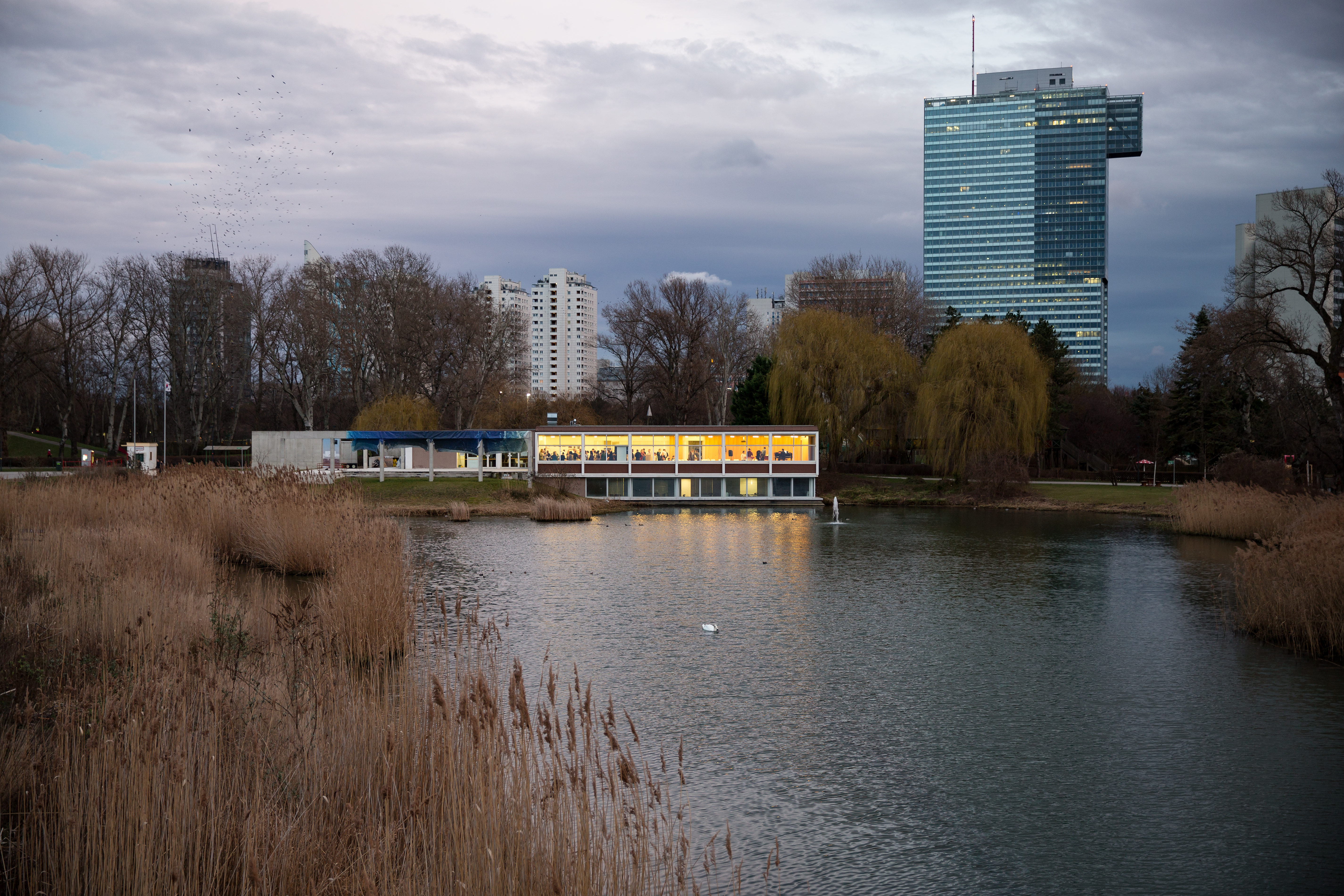 At Donaupark in Vienna, Austria.